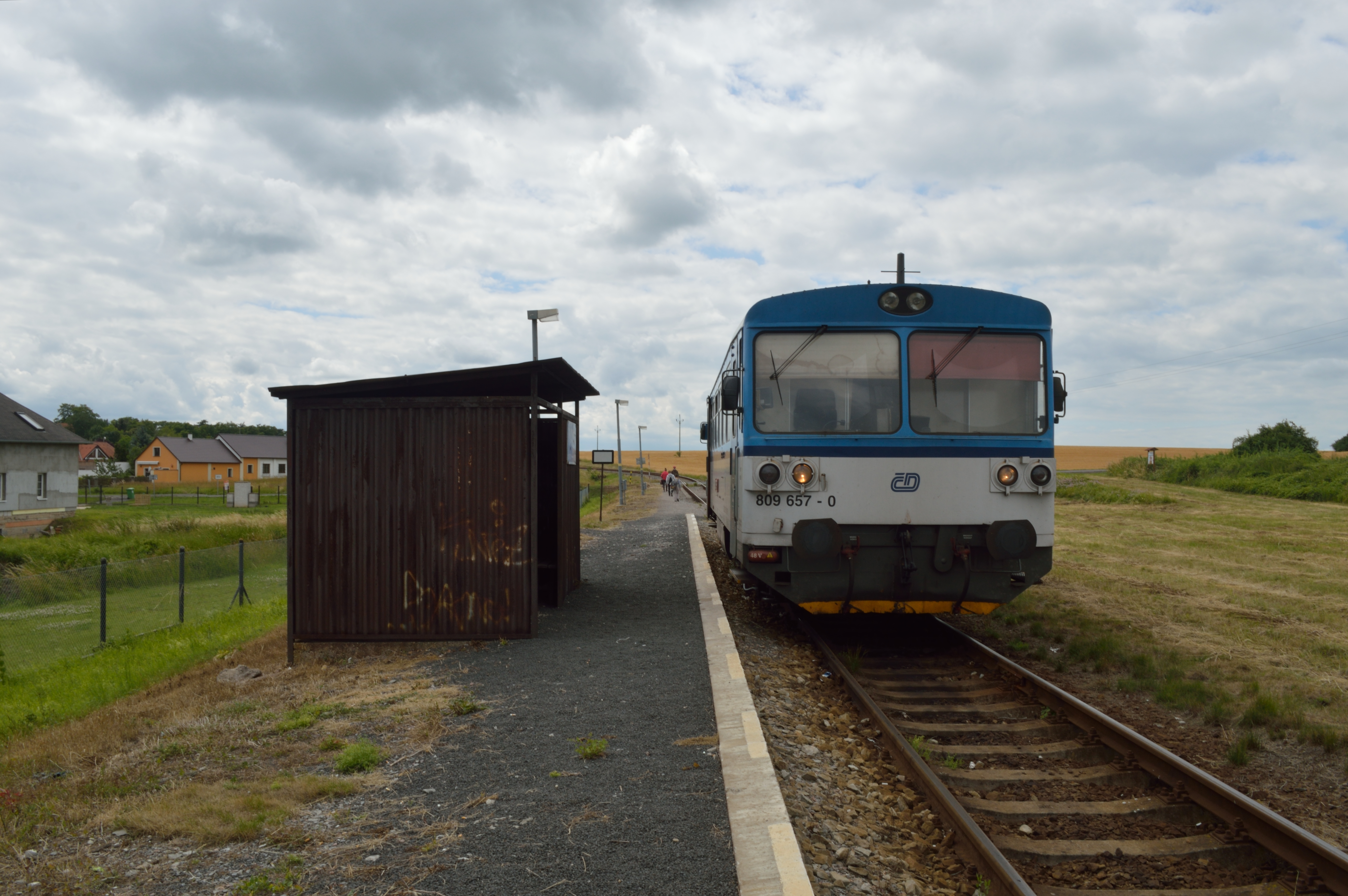 Line 096 connecting Roudnice nad Labem and Libochovice via Straškov no longer sees trains throughout. Regular services now terminate here at Račiněves some 2kms from Straškov. Effectively a waiting shelter on a through line marks the end of the line for day-to-day passenger traffic. However on some weekends special trains carry on through to Libochovice. Seen on 24 June 2015, 809.657 on train Os19617, 14:37 Račiněves to Roudnice nad Labem.